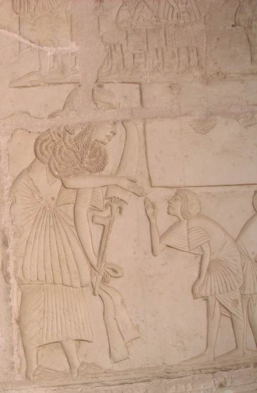 Relief of Horemheb's tomb - 18th dynasty of Egypt - Saqqara